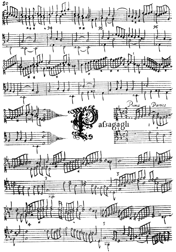 Facsimile of a page from the original edition of Selva di varie compositioni by Bernardo Storace (fl. 1664), published in Venice in 1664. On this page: last bars of Passagagli sopra A la mi re and the beginning of Passagagli sopra C sol fa ut.